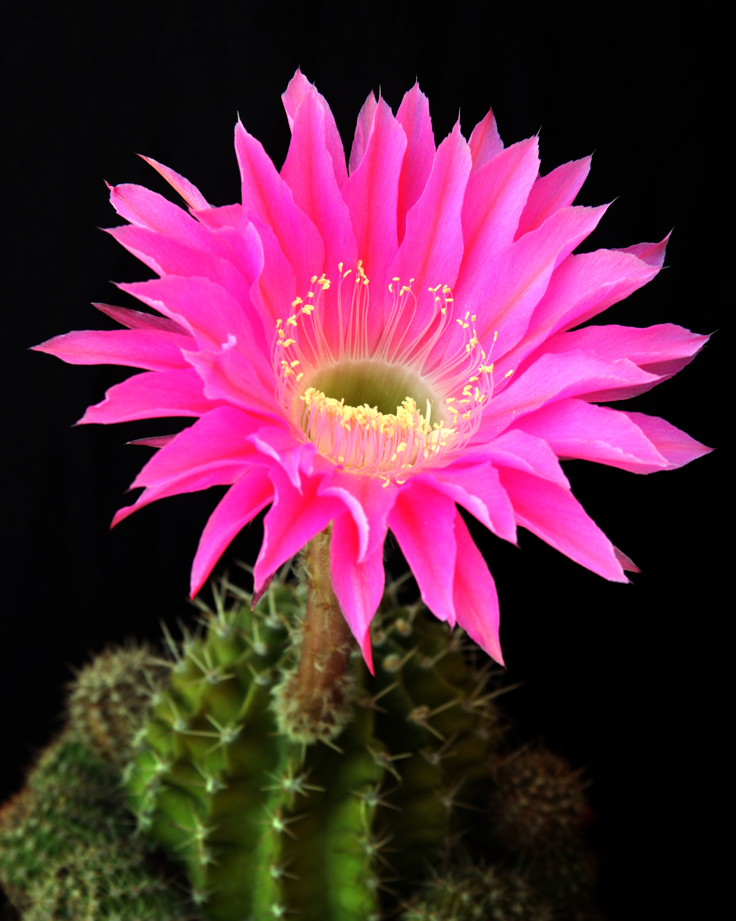 Unidentified Echinopsis flower. If you know the species, please identify.